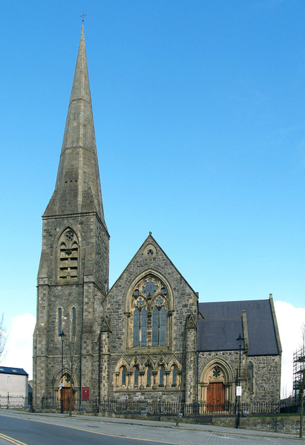 The front St Columba's Church of Ireland parish church, Church Street, Omagh, County Tyrone